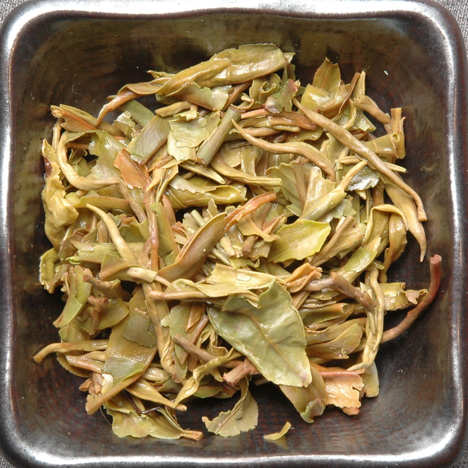 Darjeeling tea, first flush 2007, Risheehat Estate, SFTGFOP1 CH/FL, wet leaf after steeping